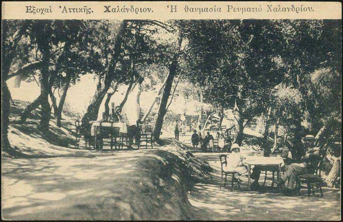 Chalandri creek at 1930